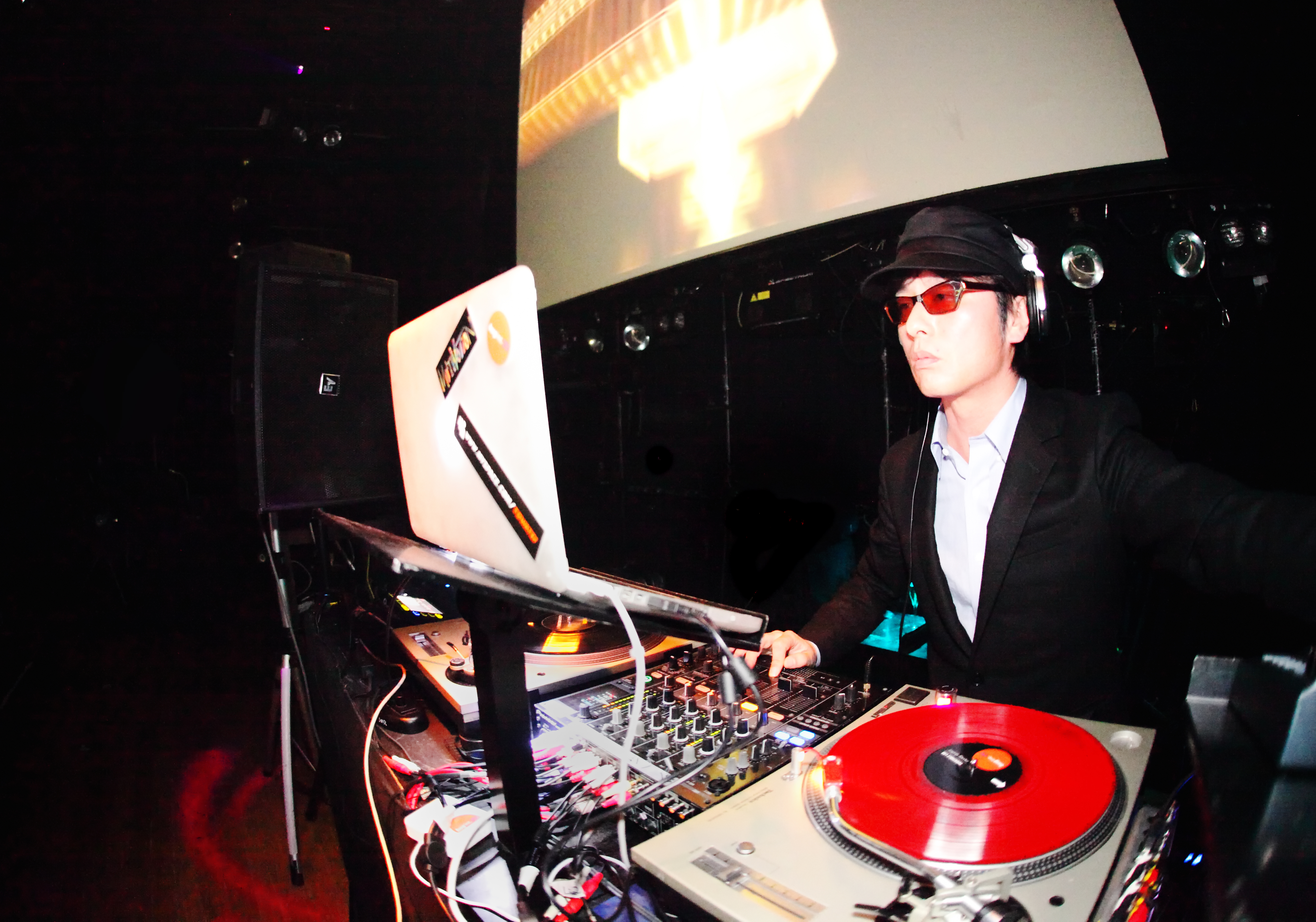 TOWA TEI_clubasia 14th Anniversary